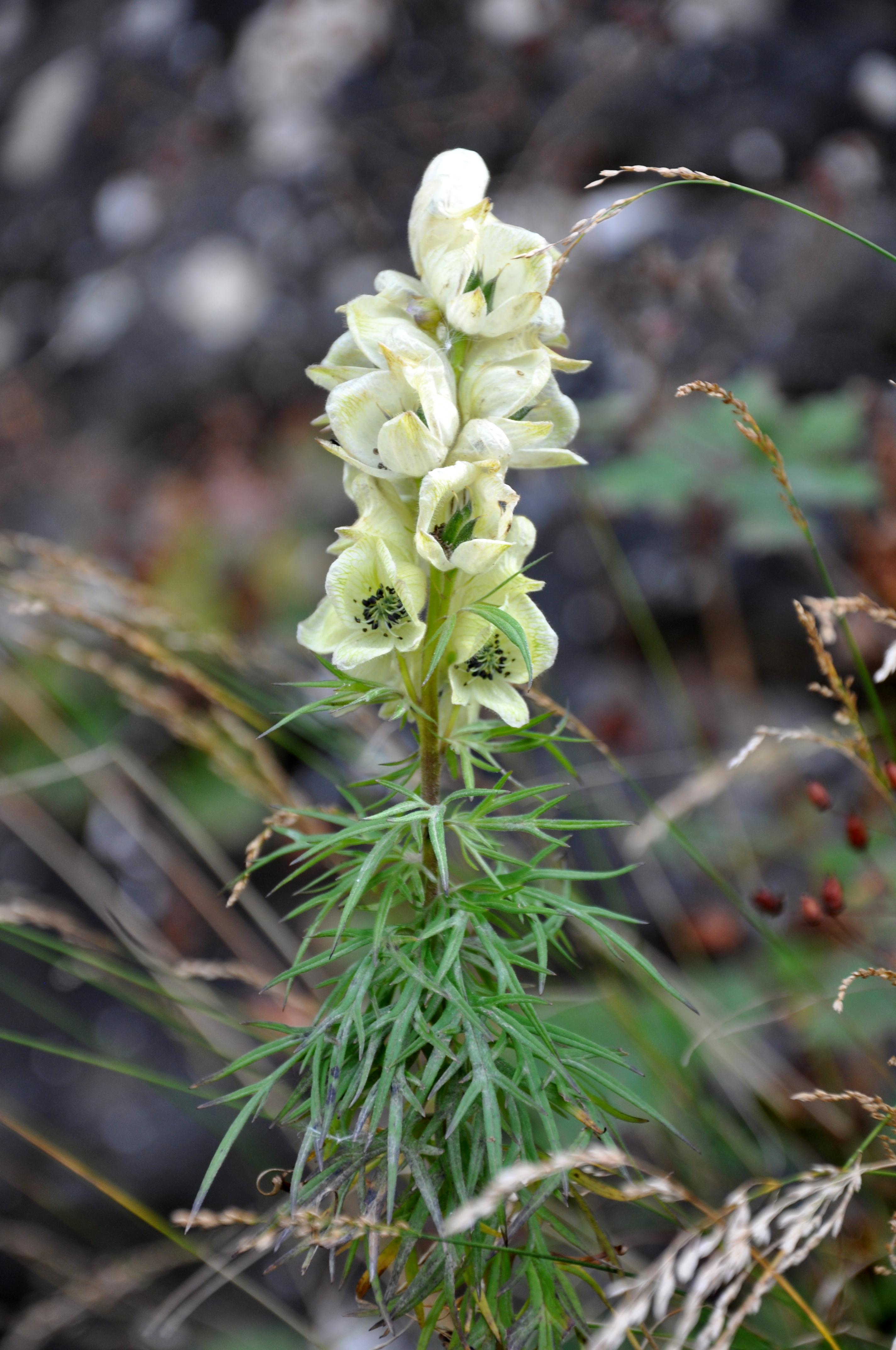 Bakuriani